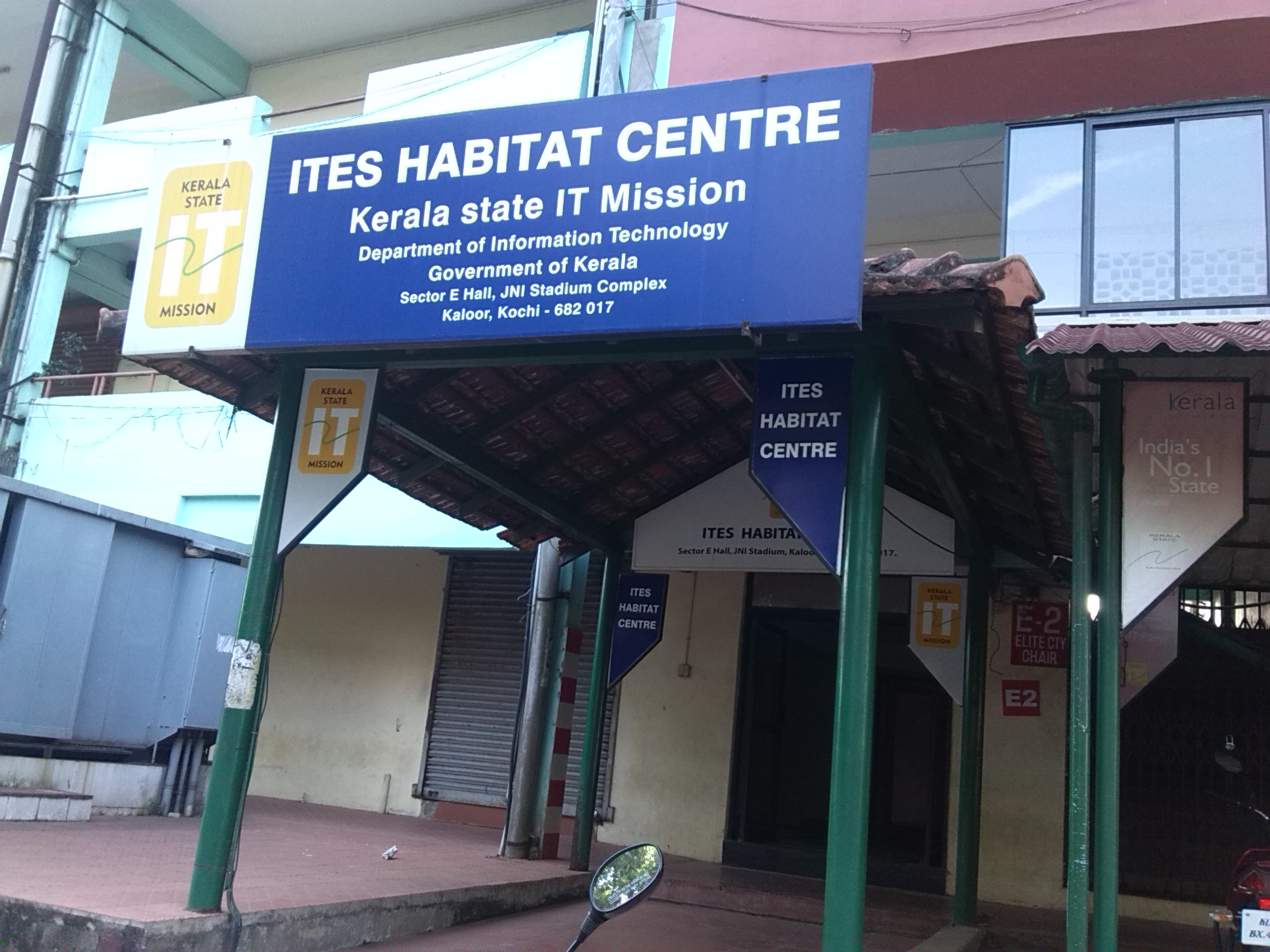 front gate